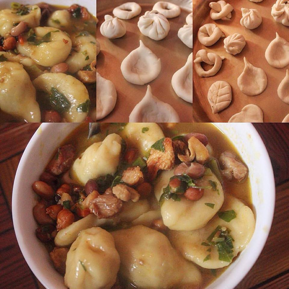 A traditional cuisine of Newa, Garcha.